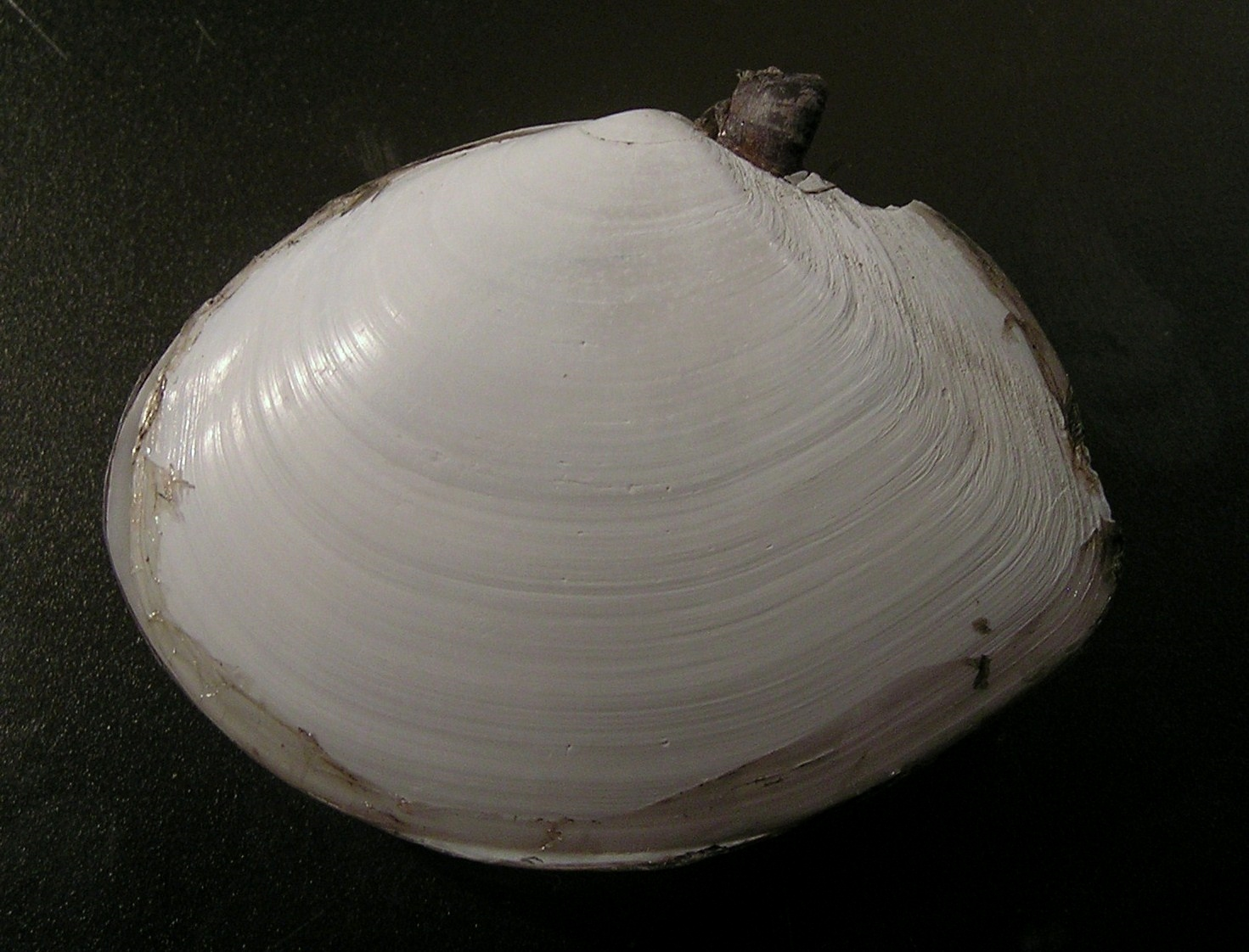 Macoma secta (Conrad, 1837), a bivalve from the family Tellinidae; California